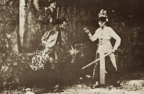 Olive Young (楊愛立) as Princess Iron Fan (铁扇公主) in the 1927 silent film The Mystic Fan (火焰山 huǒyàn shān).